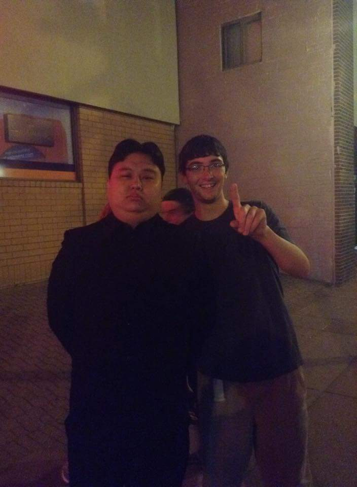 Minyong Kim poses for a picture with a student